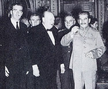 Picture of Grandfather with Stalin